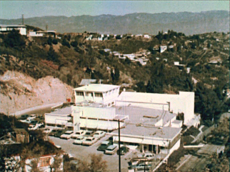 United States Air Force Lookout Mountain Laboratory from above in color